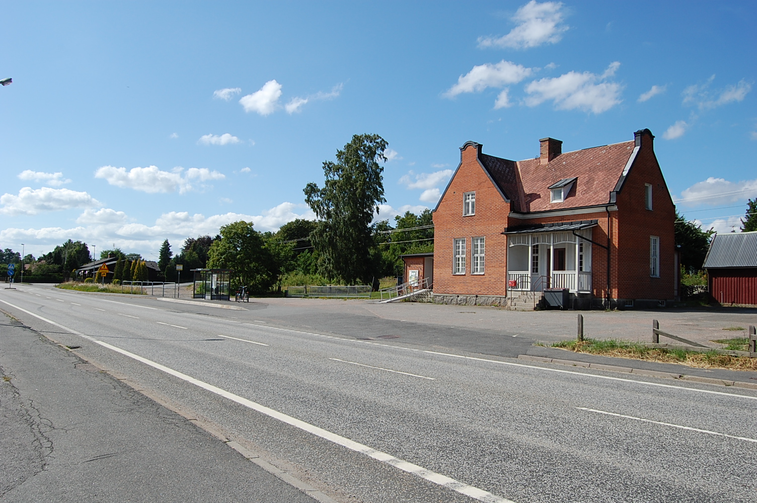 The former school in the village Valje, Bromölla municipality, Sweden